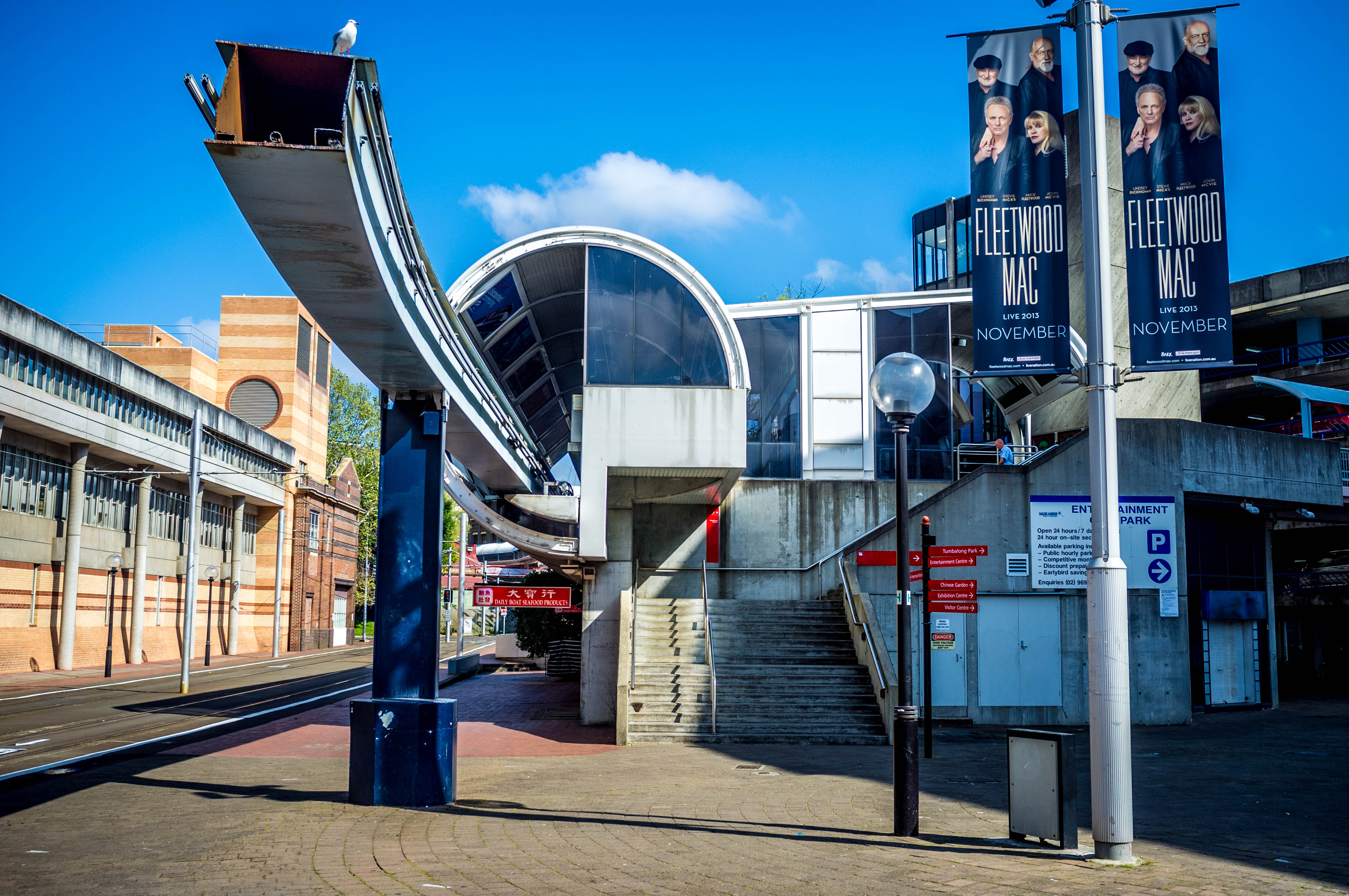 Sydney Monorail Demolition